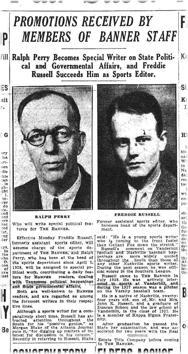 Nashville Banner announcement of Fred Russell's promotion to sports editor